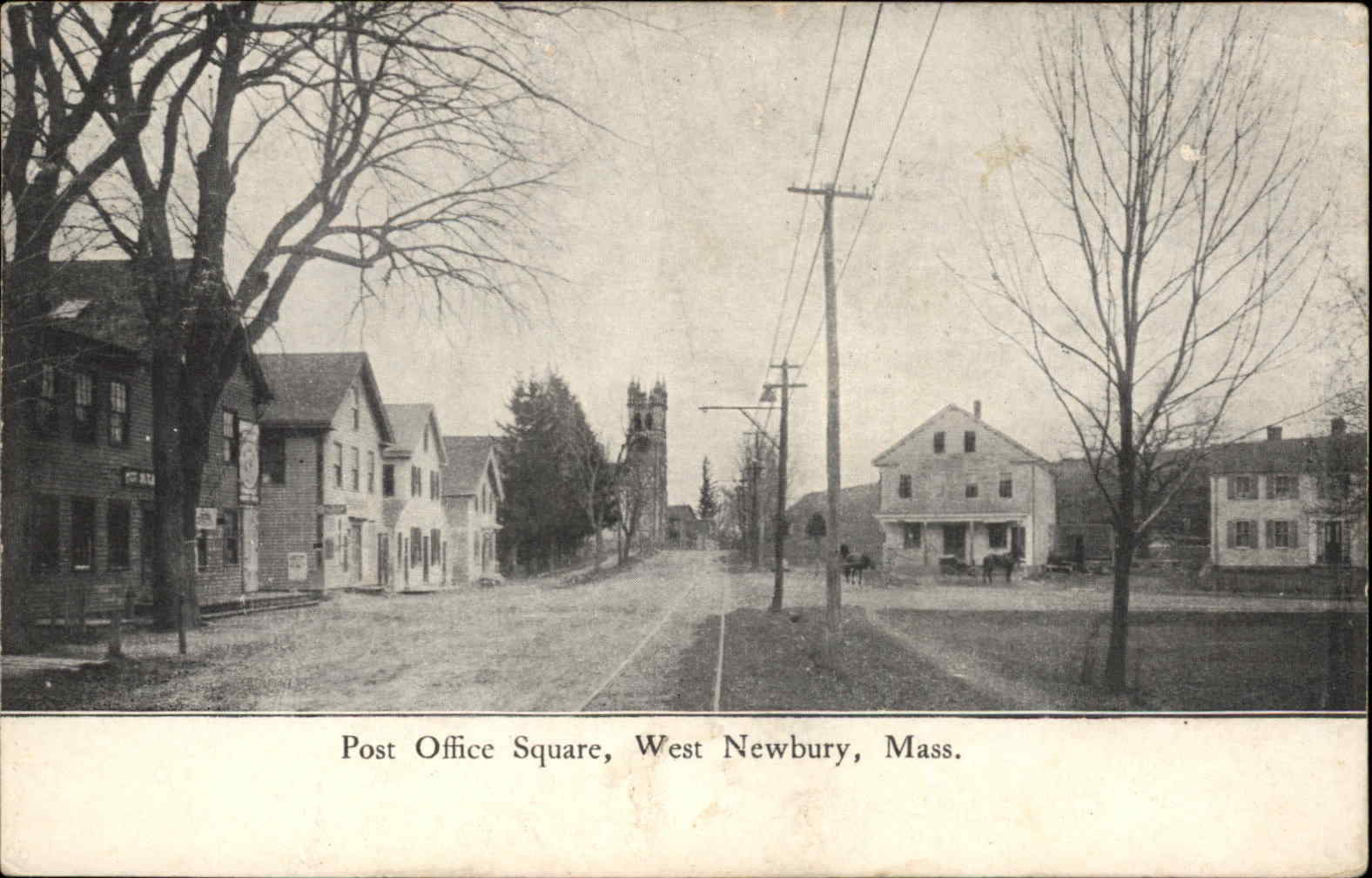 Post Office Square, West Newbury, MA; from a c. 1905 postcard.